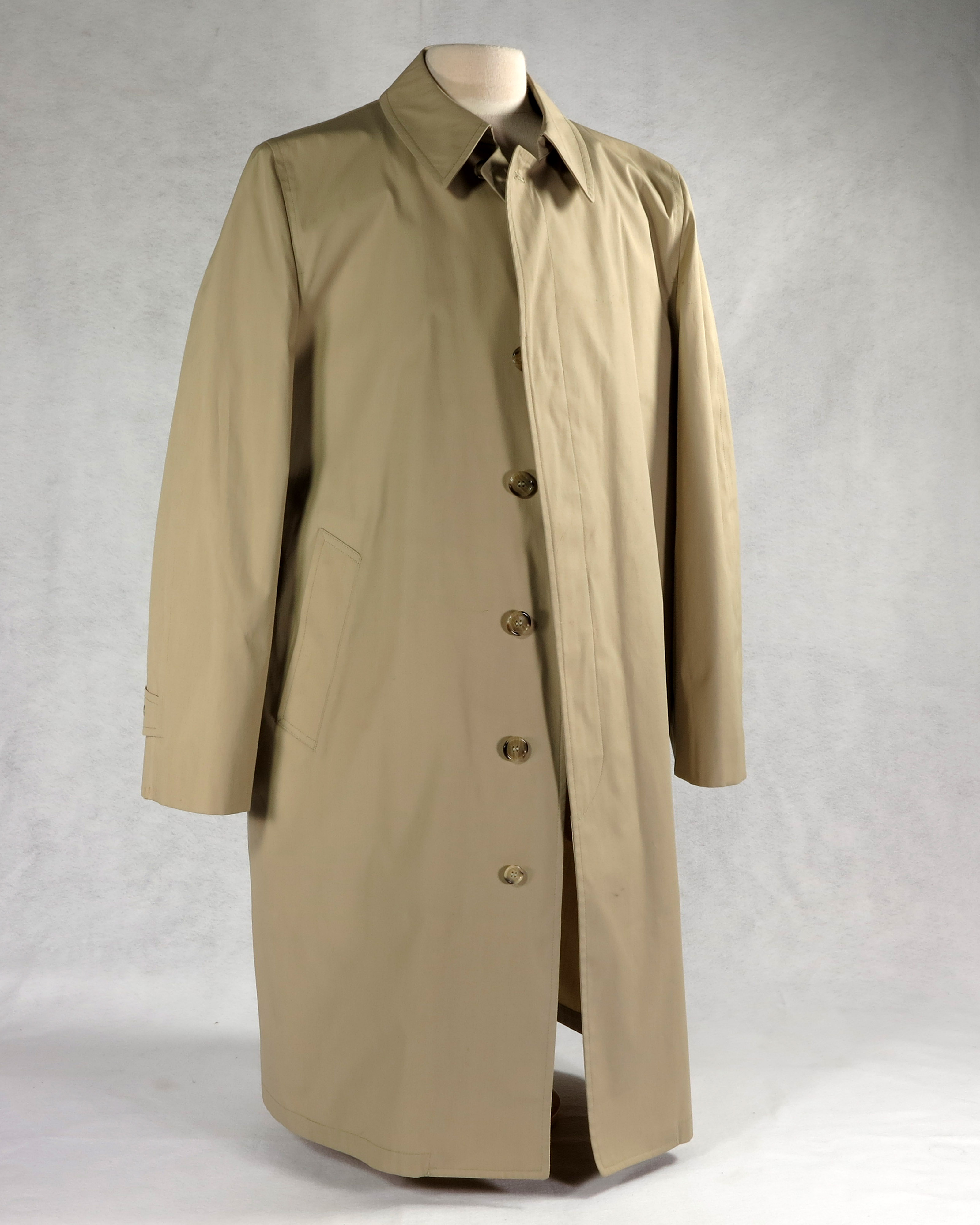 Trench coat containing a bullet-proof vest liner. The coat is beige in color, contains 6 front buttons, adjustable sleeve cuffs, and two pockets, which are accessible from the inside. The zip-up bullet-proof vest is made of Kevlar and is covered with cloth identical in color to the coat. Sewn on the front of the vest are cleaning instructions and an issue date of October 1975. The coat and vest weigh 6 lbs., 15oz. Worn in public by President Gerald R. Ford after two assassination attempts in 1975.